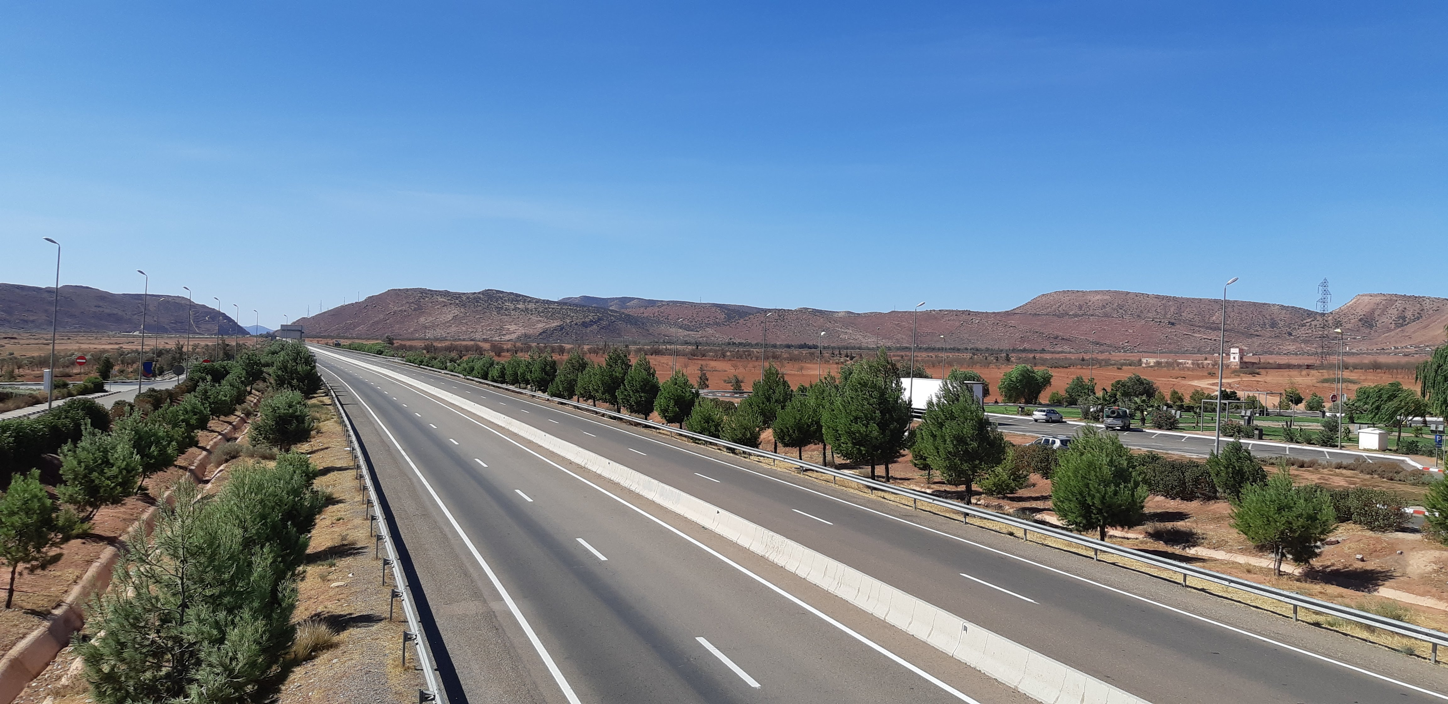 Highway Marrakech Agadir 2019